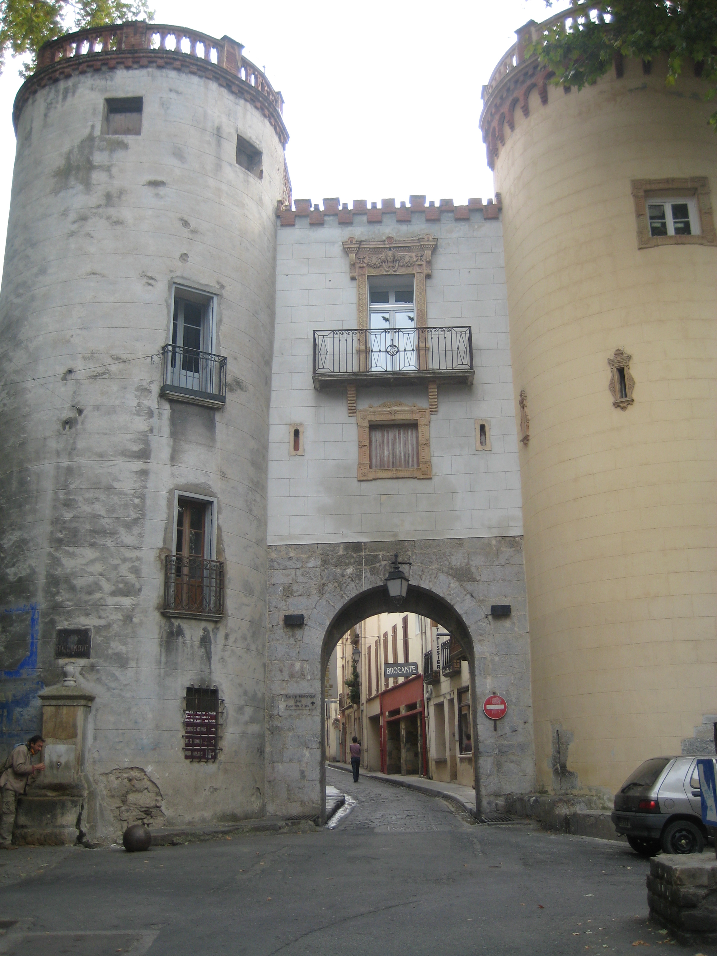 City gates of Céret